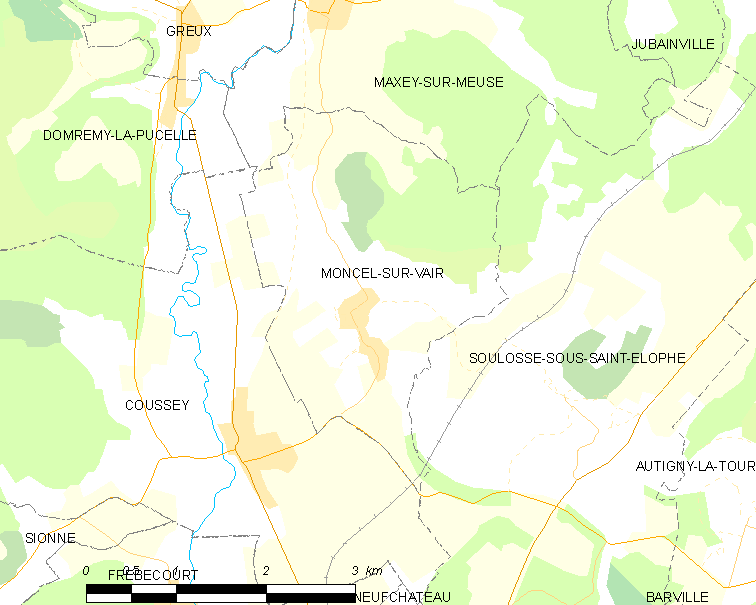 Map of French municipality Moncel-sur-Vair